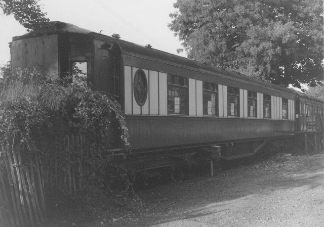 Pullman carriage Theodora at Tenterden Town station, Kent & East Sussex Railway in 1980.